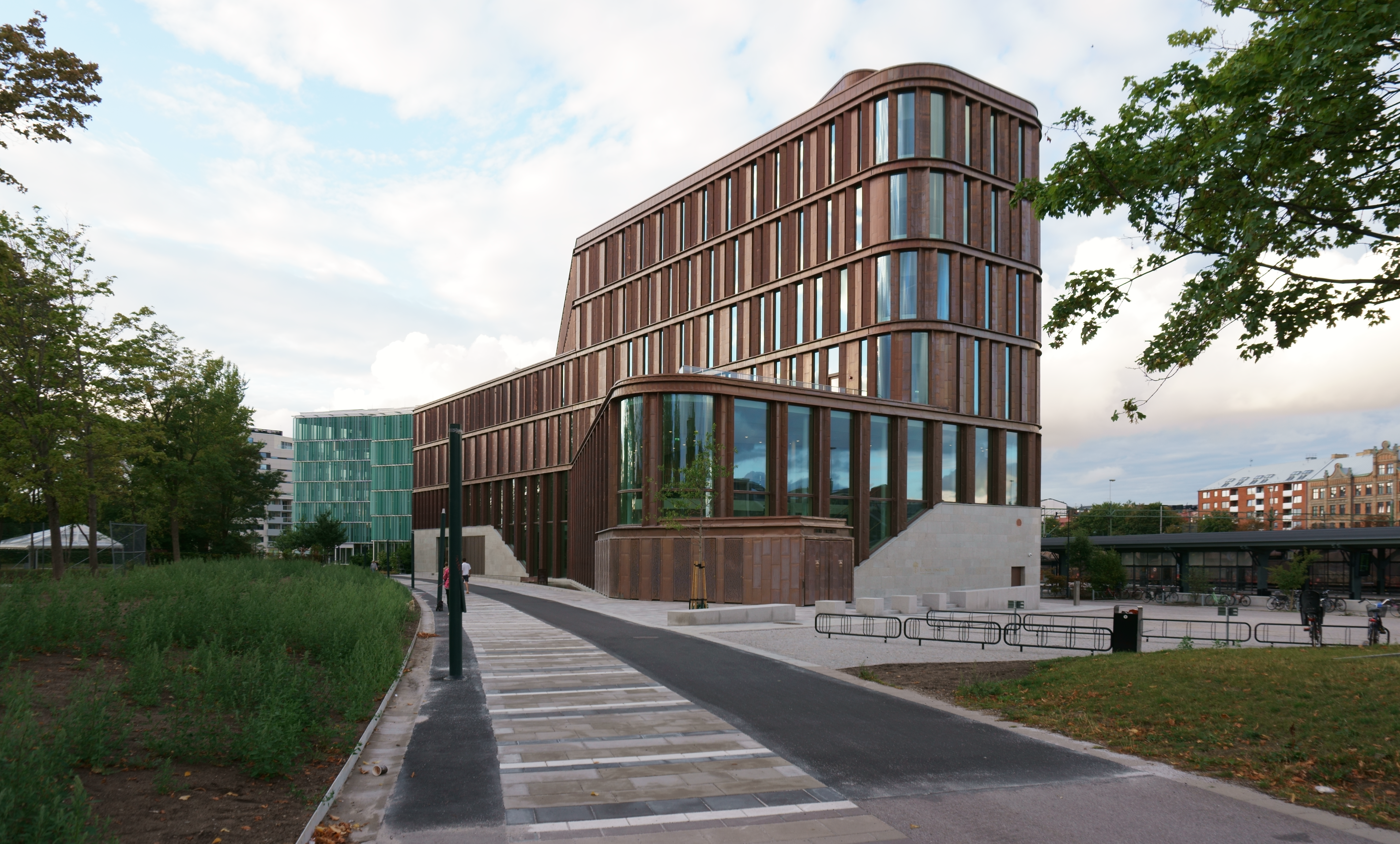 The new courthouse in Lund. The picture was taken on 2018-08-14.